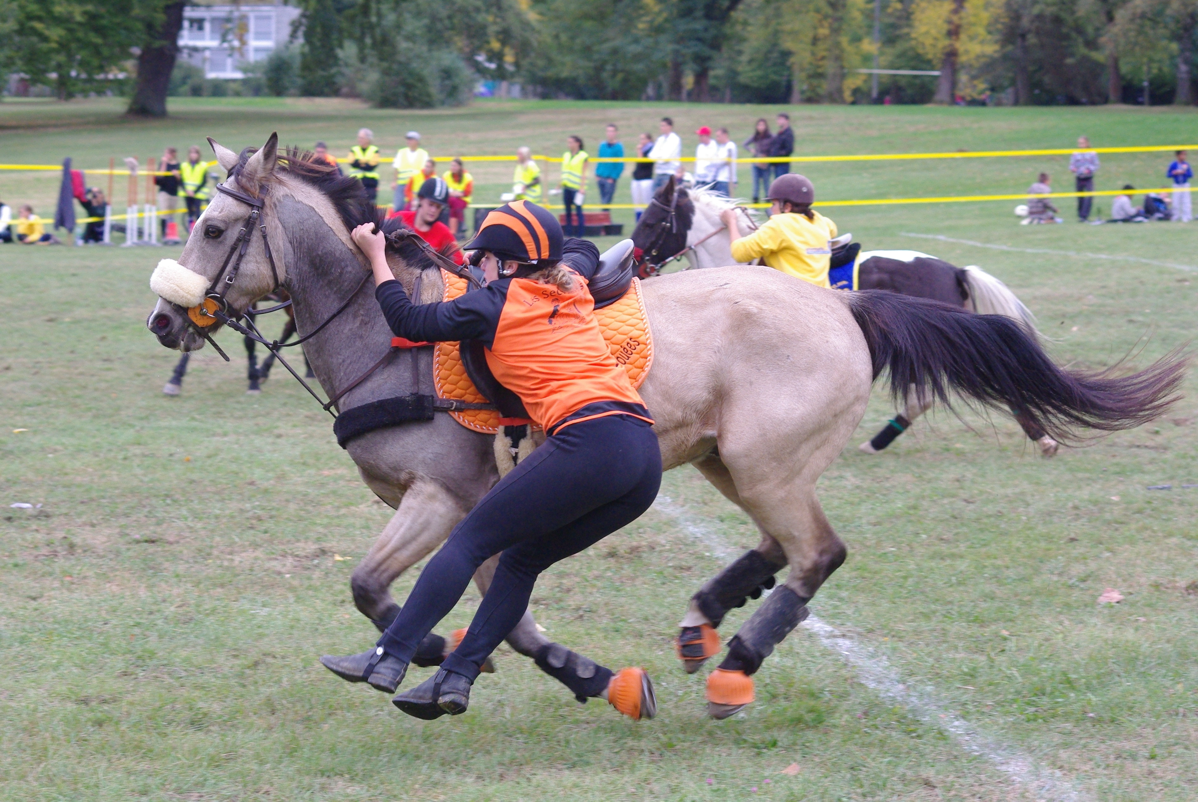 Girl jumping back on her horse during the Swiss Pony Games 2011 - Finals held at the Parc des Évaux in Laconnex, GE